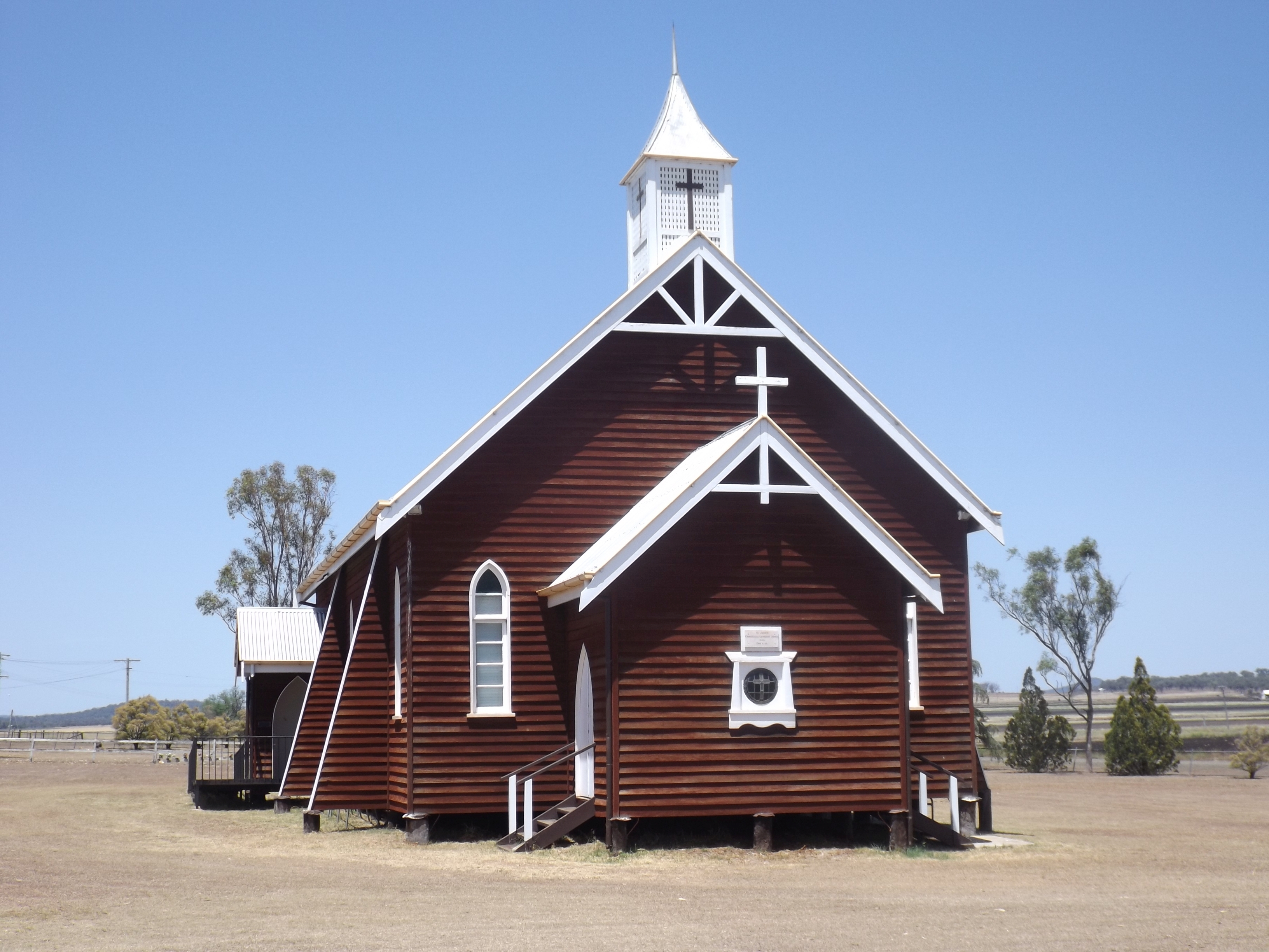 Photo of St Johns Lutheran Church at Aubigny, Queensland, Australia.